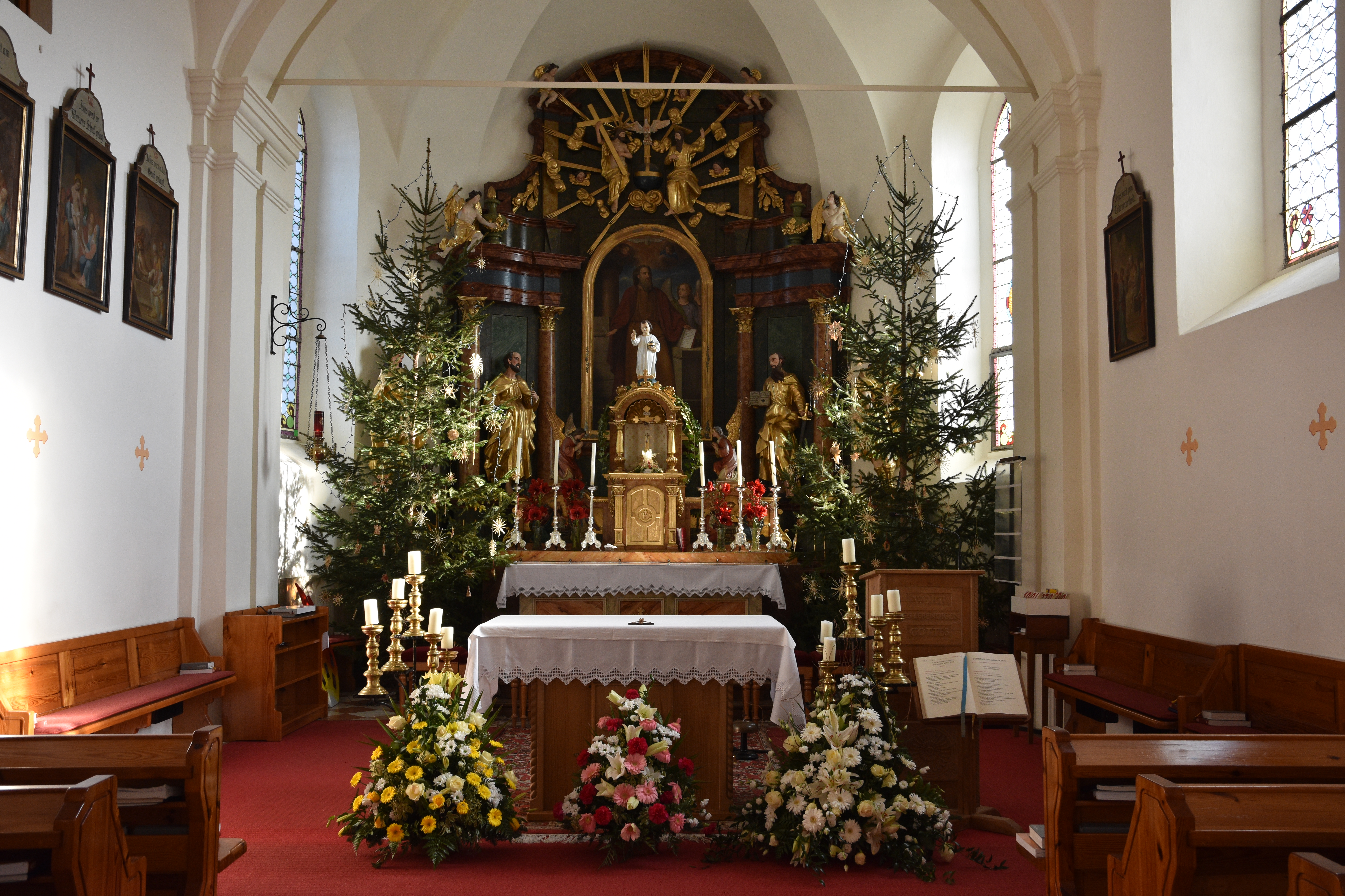 Church Kath. Pfarrkirche hl. Matthäus (Lang) Styria Interior